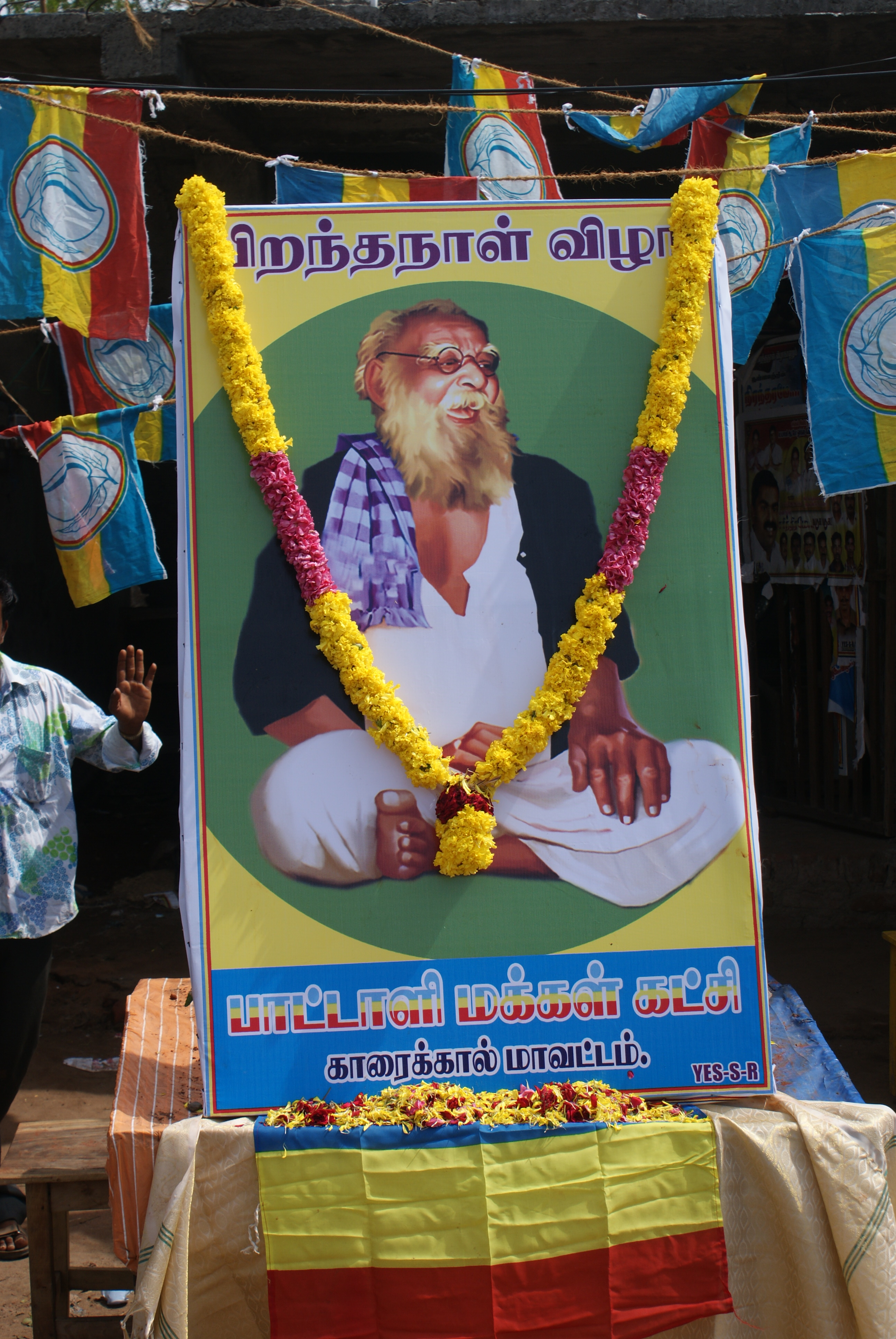 The Pattali Makkal Katchi party celebrates the 132th birthday anniversary of E. V. Ramasamy (Periyar) in Tirunallar (Karaikal district)